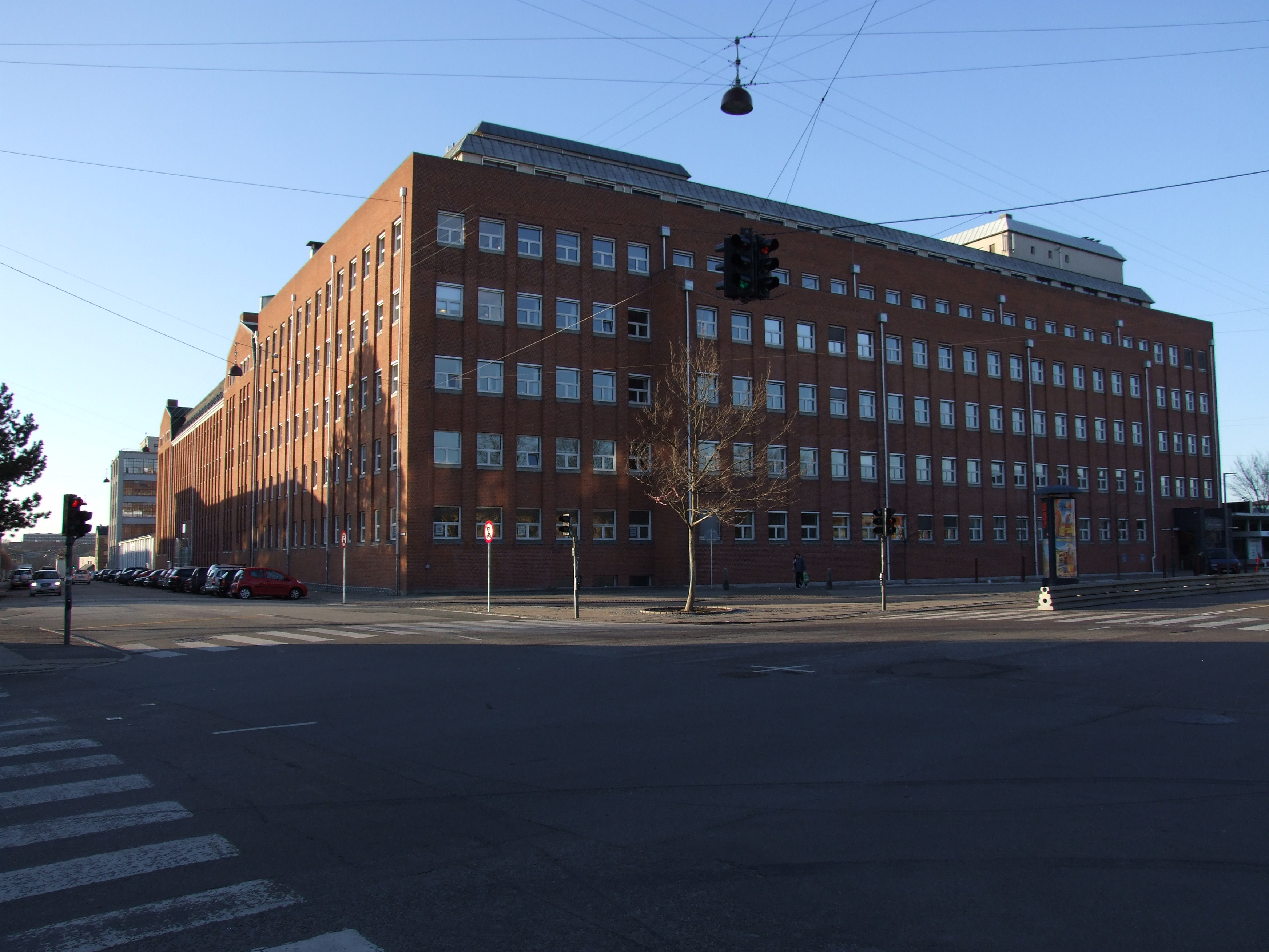 Danish ministry of the environment offices in Nørrebro district in Copenhagen